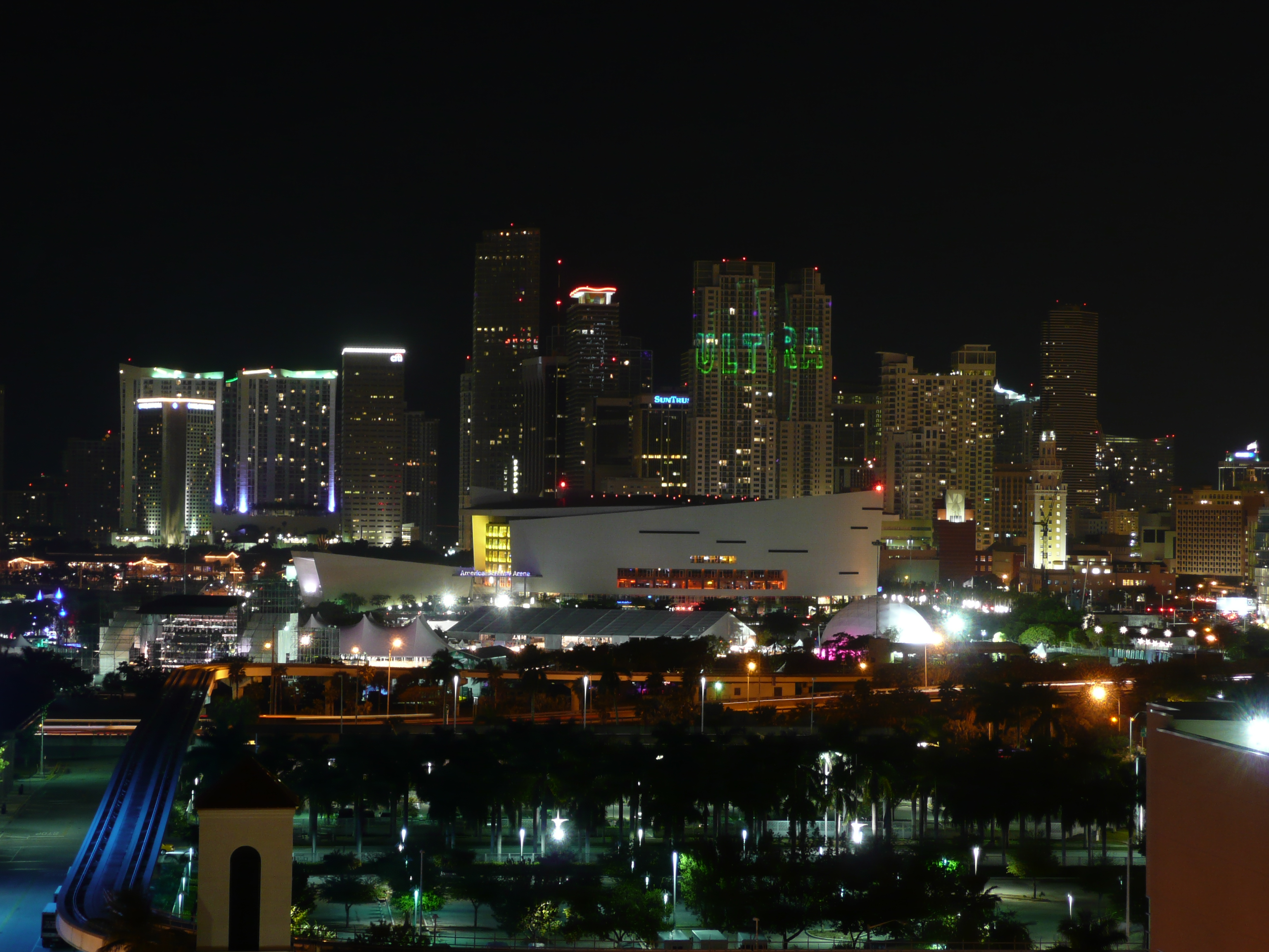 The Ultra Music Festival in Downtown Miami, Florida, United States.